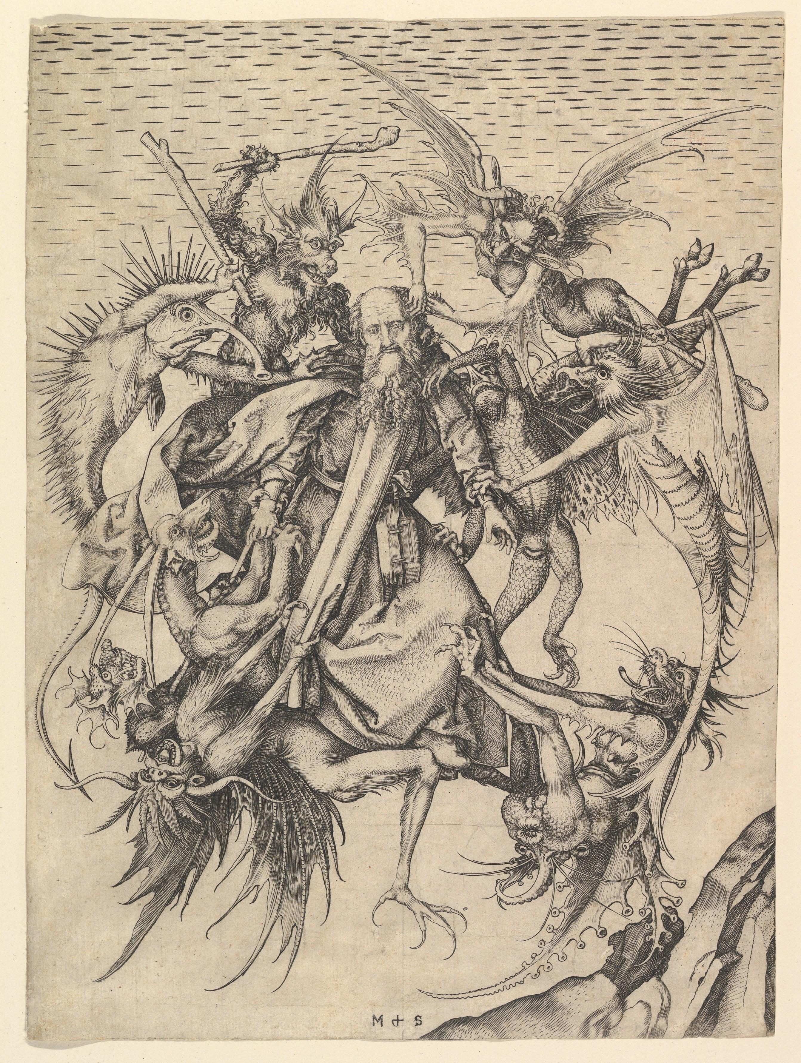 The Temptation of St. Anthony by Martin Schöngauer c. 1480-90. Engraving. The Metropolitan Museum of Art, New York